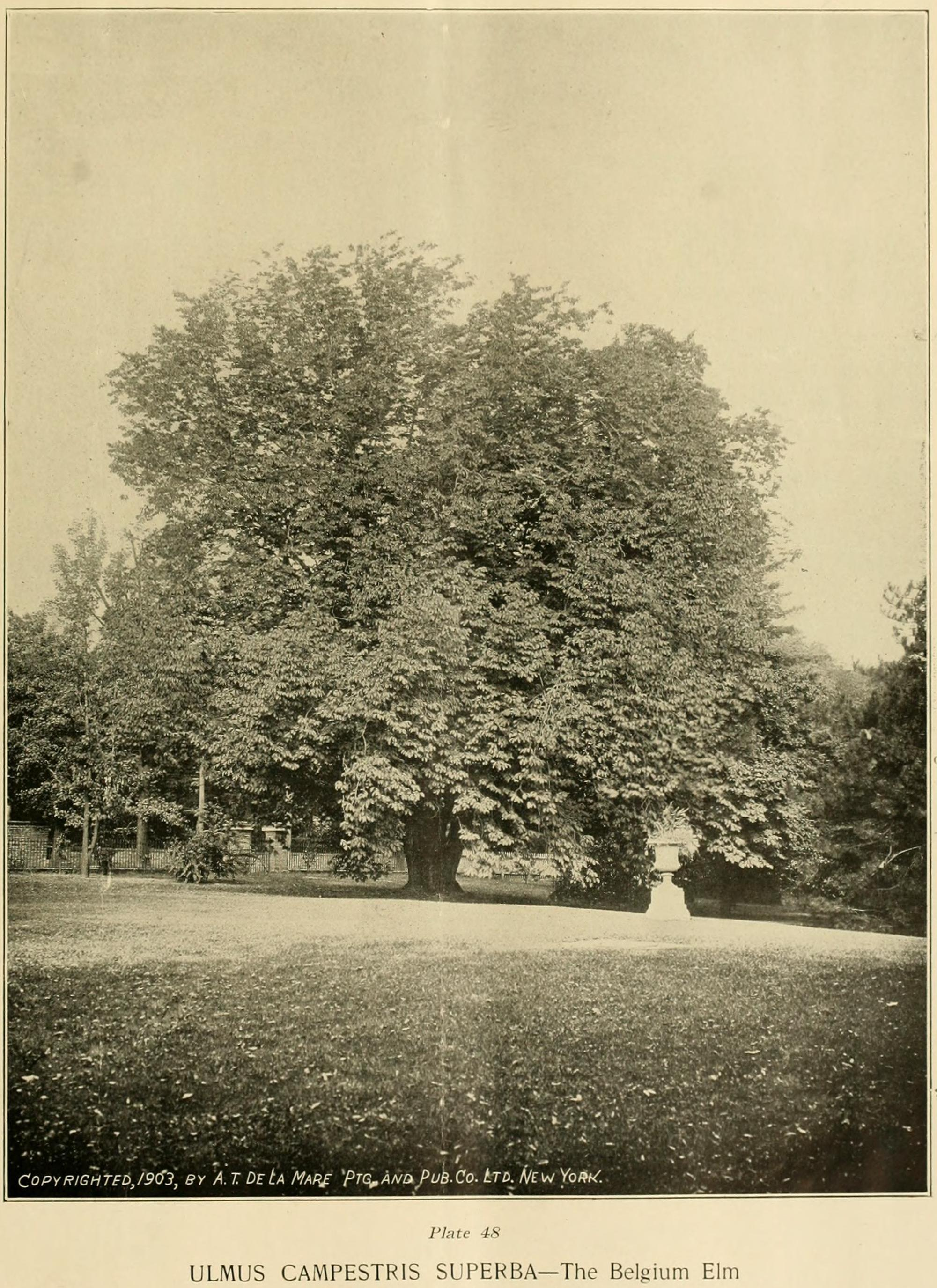 Belgian Elm at Ellwanger & Barry, Rochester NY